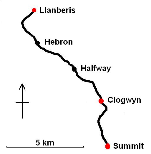 Diagram of the Snowdon Mountain Railway